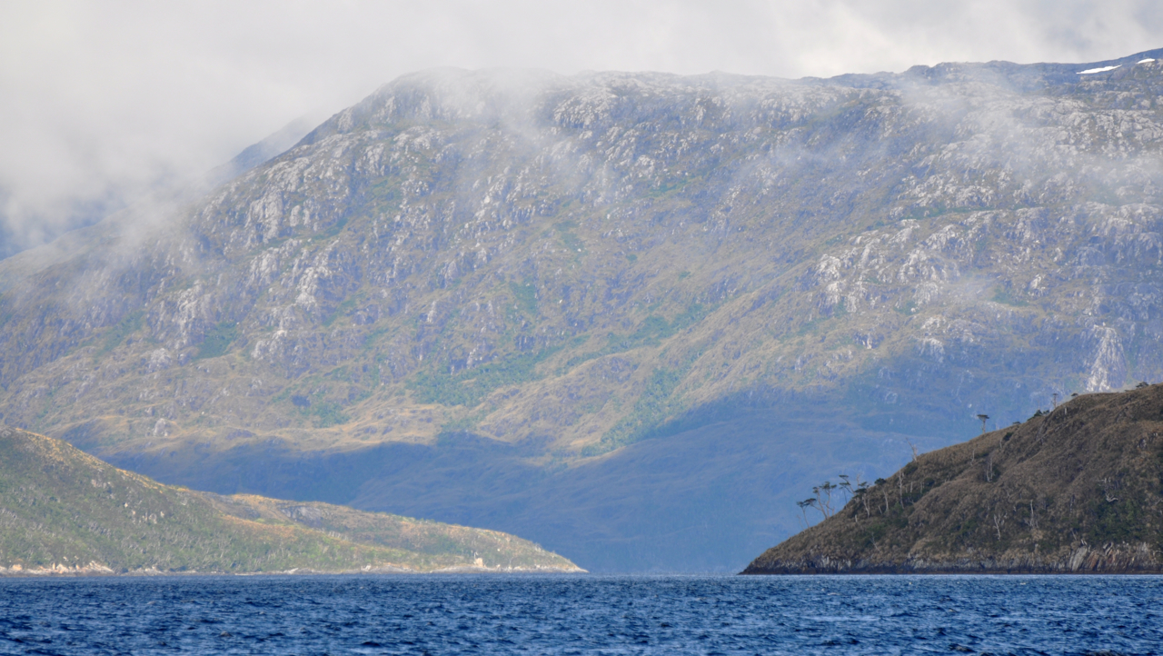 Darwin Sound - Tierra del Fuego - Chile